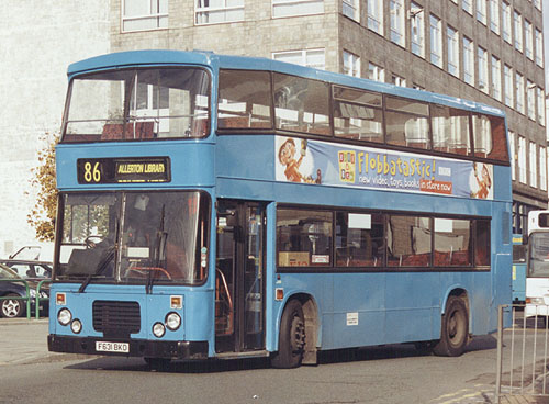 Citybus (Liverpool) bus (reg. F631 BKD), a 1989 Dennis Dominator double-decker with East Lancs '1984-style' body (#A8814). It was new to North Western as their No. 631.